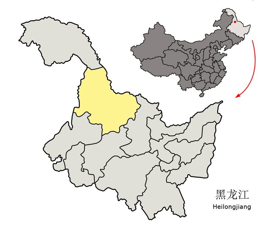 Location of Heihe Prefecture (yellow) within Heilongjiang Province of China Map drawn in november 2007 using various sources, mainly : Heilongjiang Province administrative regions GIS data: 1:1M, County level, 1990 Heilongjiang Counties map from